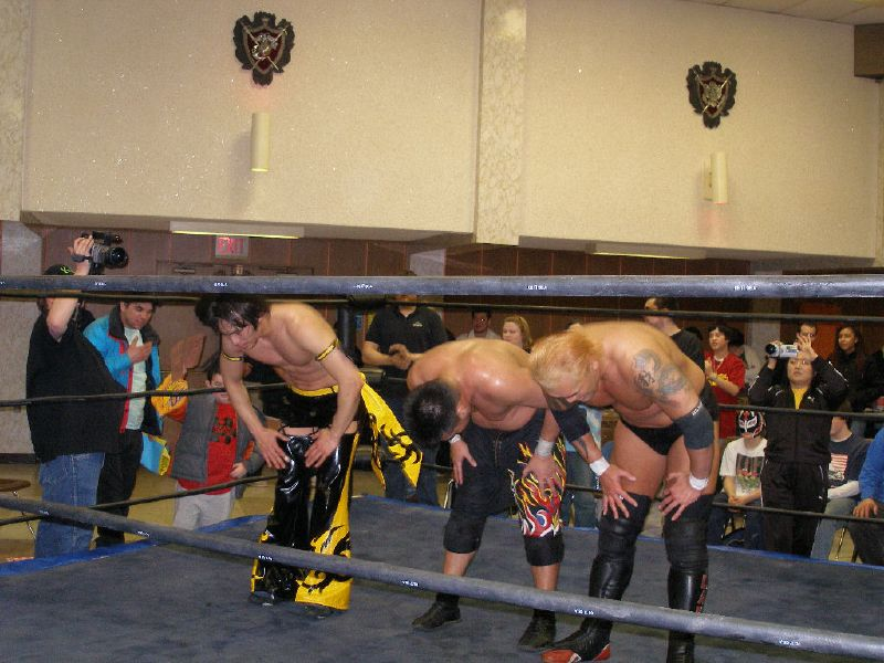 Professional wrestlers KUDO, MIYAWAKI and Yoshiaki Yago of Team Kaientai Dojo at CHIKARA King of Trios 2007.